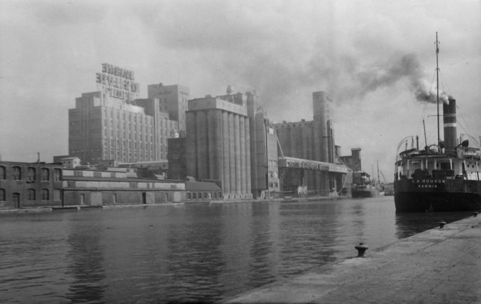 We see the Ogilvie flour mills on the banks of the Lachine Canal in Montreal.